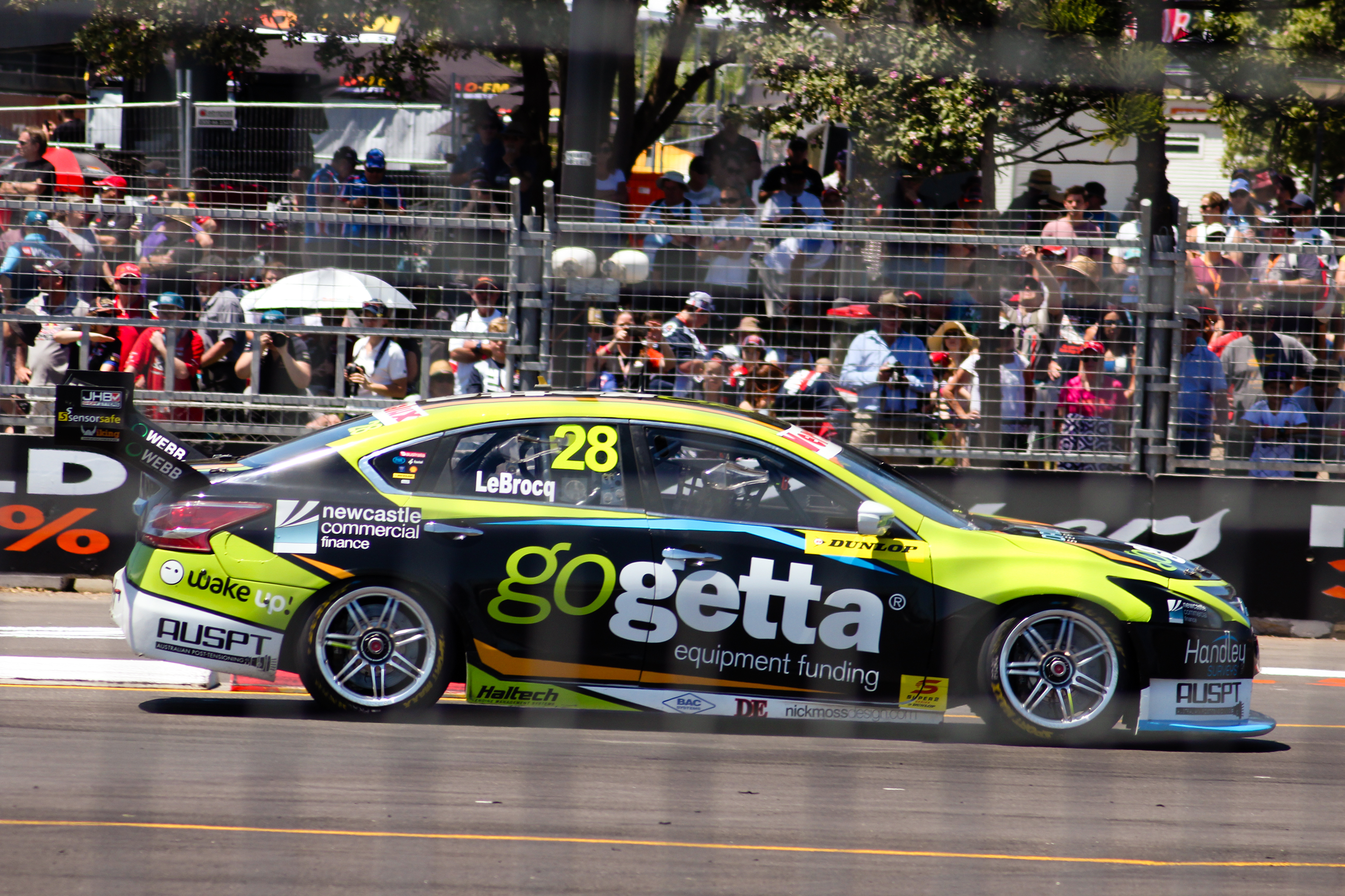 Jack LeBrocq at Newcastle, 2017